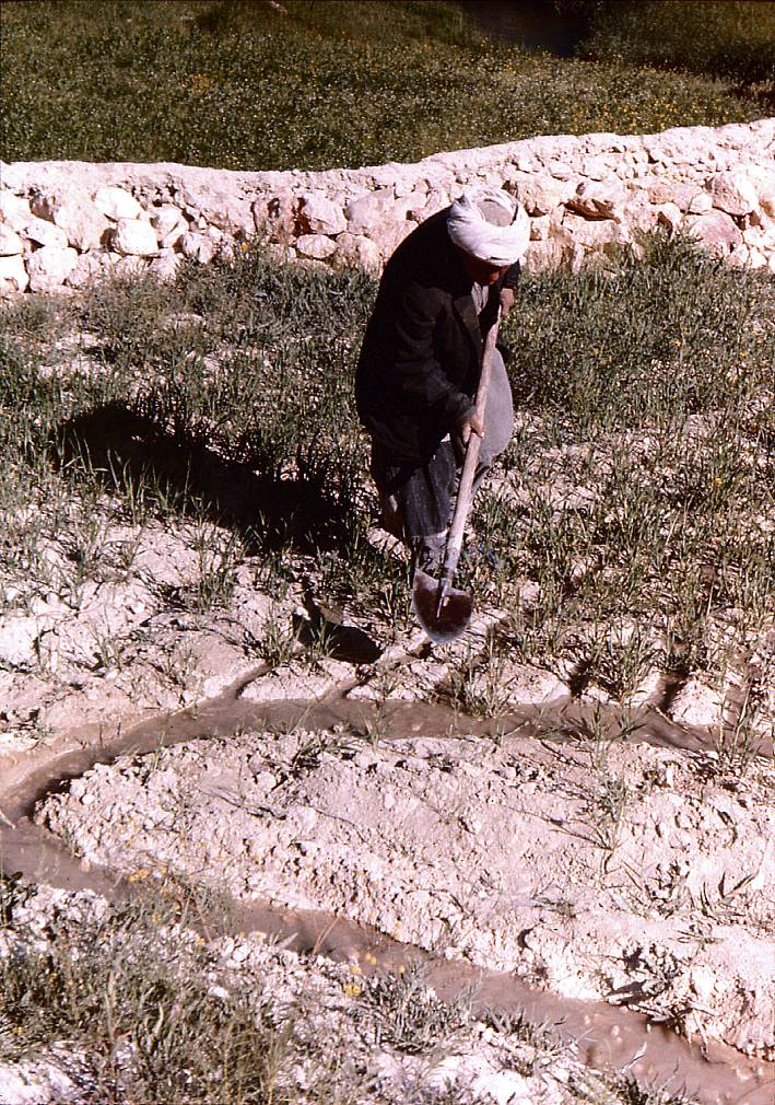 Irrigating by hand, Afghanistan, 1976